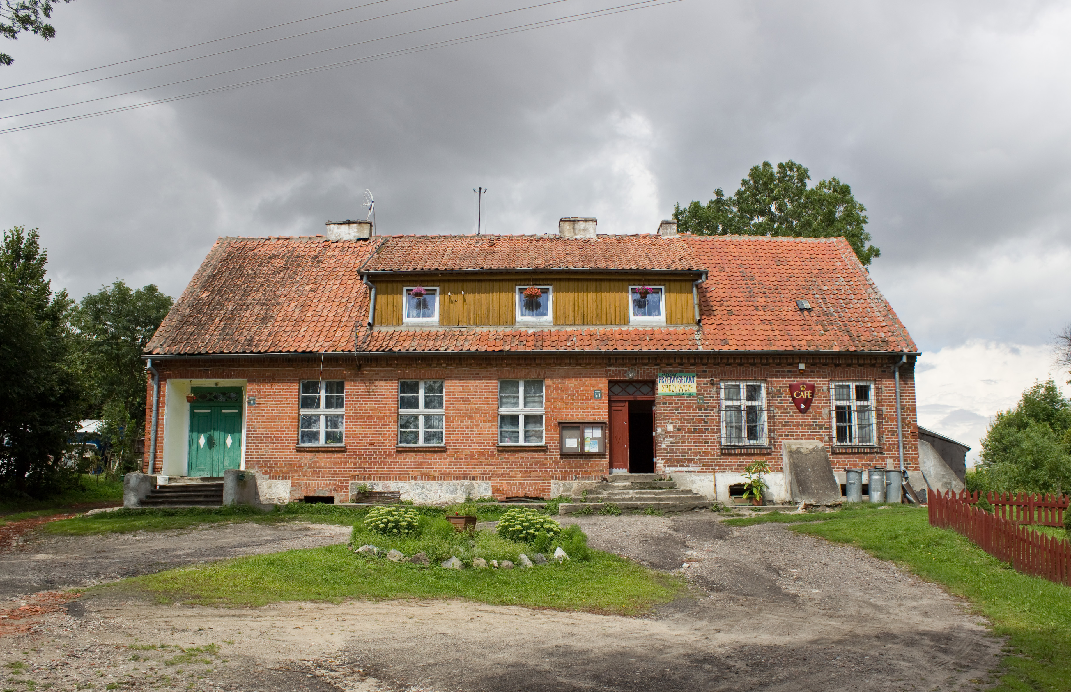 Kominki, gmina Kolno, powiat olsztyński, Warmian-Masurian Voivodeship